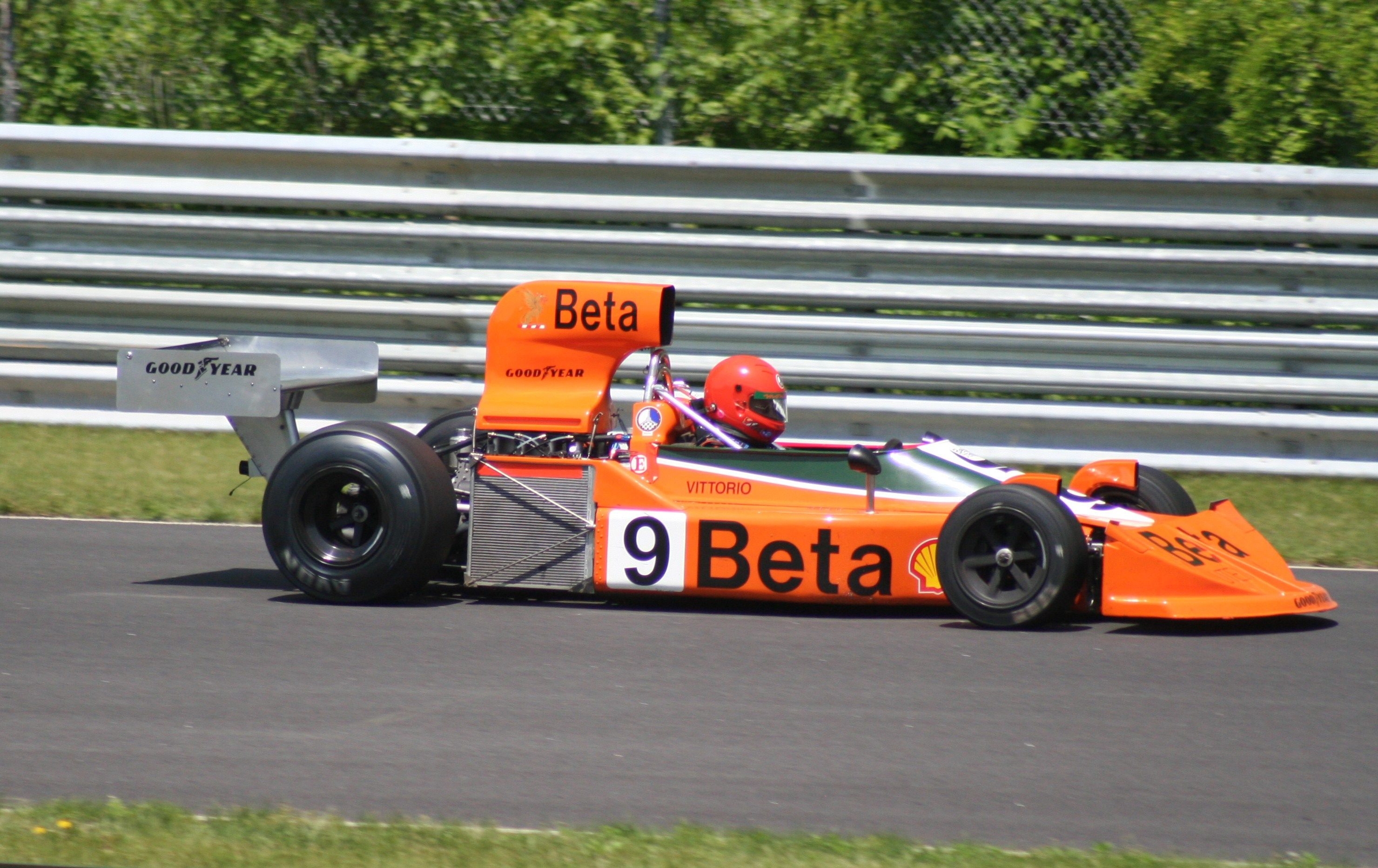 An ex-Vittorio Brambilla March 761 being driven at a Historic Grand Prix at Lime Rock Park in May 2009.